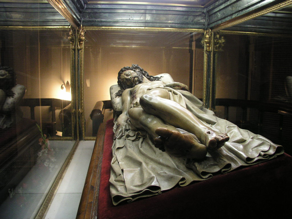 Santísímo Crísto de El Pardo, Seminario Serafico de Missiones Padres Capuchinos, El Pardo, Madrid. Sculpture made by Gregorío Hernández, Valladolid, in 1605, as thanksgiving for his son, Prince Philip, who later reigned as Philip IV. Félix Granda made the glass case with its statues in 1945. Tiene una medida de 245 por 128 The photo was taken by Håkan Svensson (Xauxa) the 22nd of December 2003.